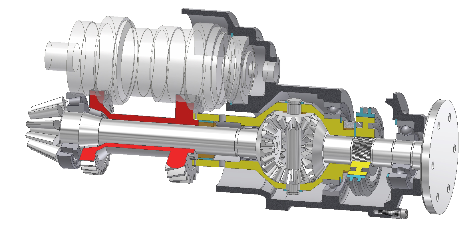 Audi quattro 1980 central differential scheme